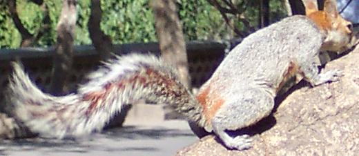 Mexican Red-bellied Squirrel (Mexican Gray Squirrel) Sciurus aureogaster